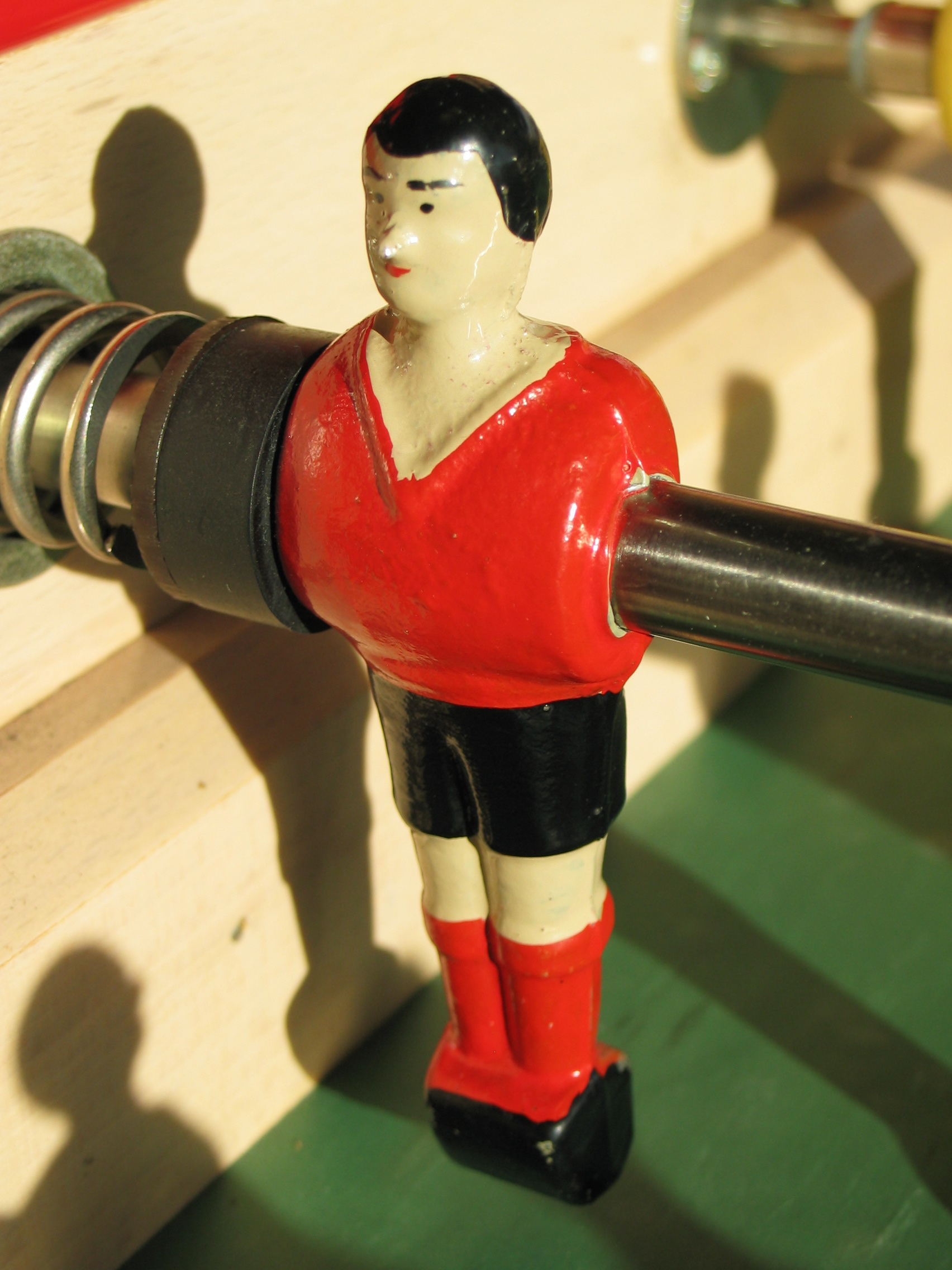 A bonzini style table football's red figurine